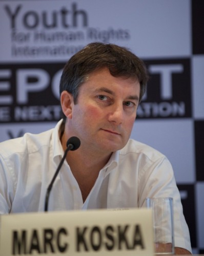 Marc Koska at a press conference in Delhi, India during SafePoint's Indian tour to educate its population of the dangers of re-using syringes.